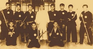 Perisai Diri 1st Generation